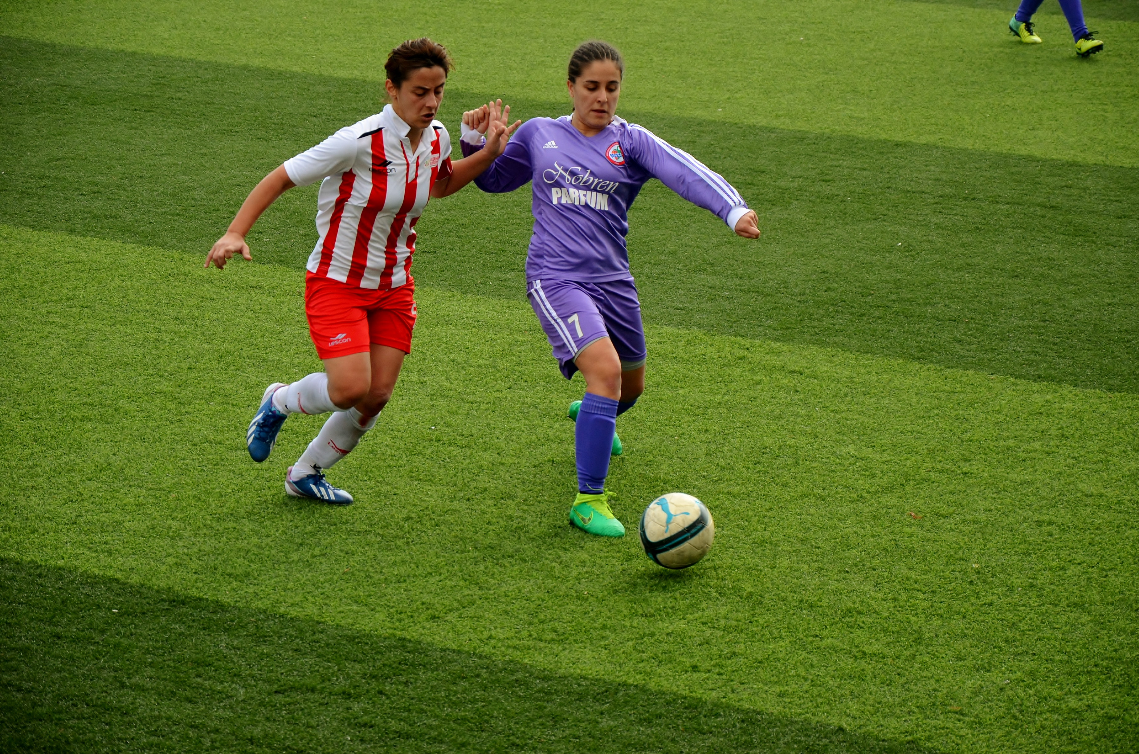 Başak İçinözbebek playing for Karadeniz Ereğlispor in the 2014-15 season away match against Ataşehir Belediyespor.